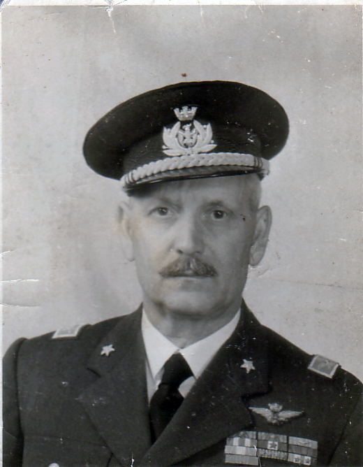 Official ID photo